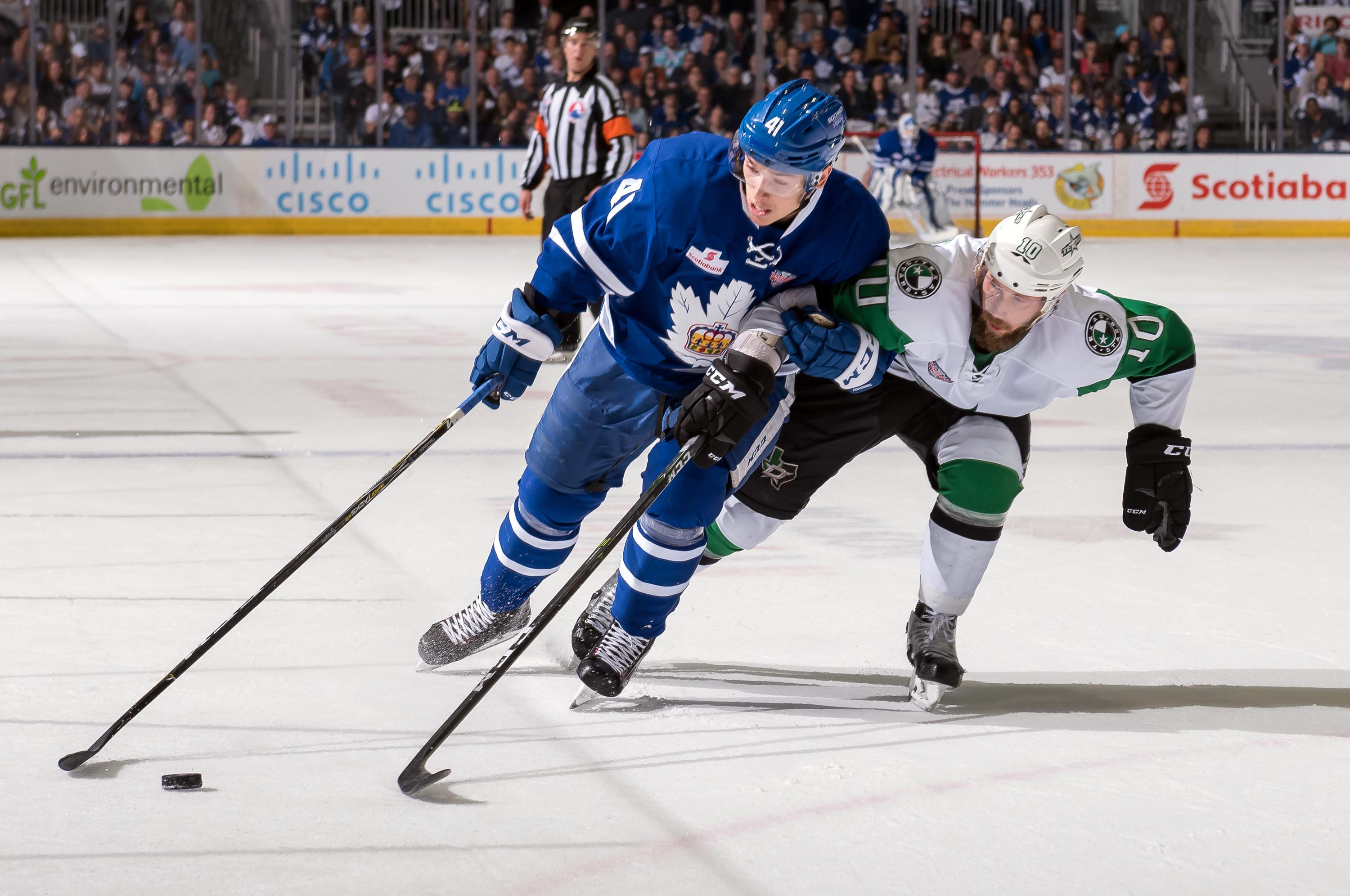 Photo: Christian Bonin